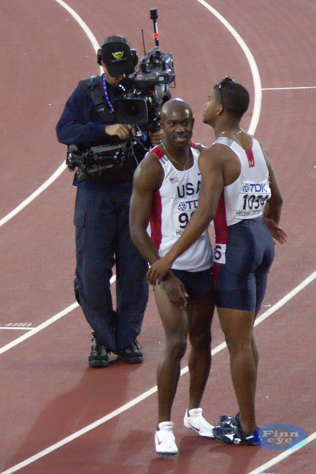 Allen Johnson, Terrence Trammell, USA, 110m hurdles World championships athletics Helsinki 2005